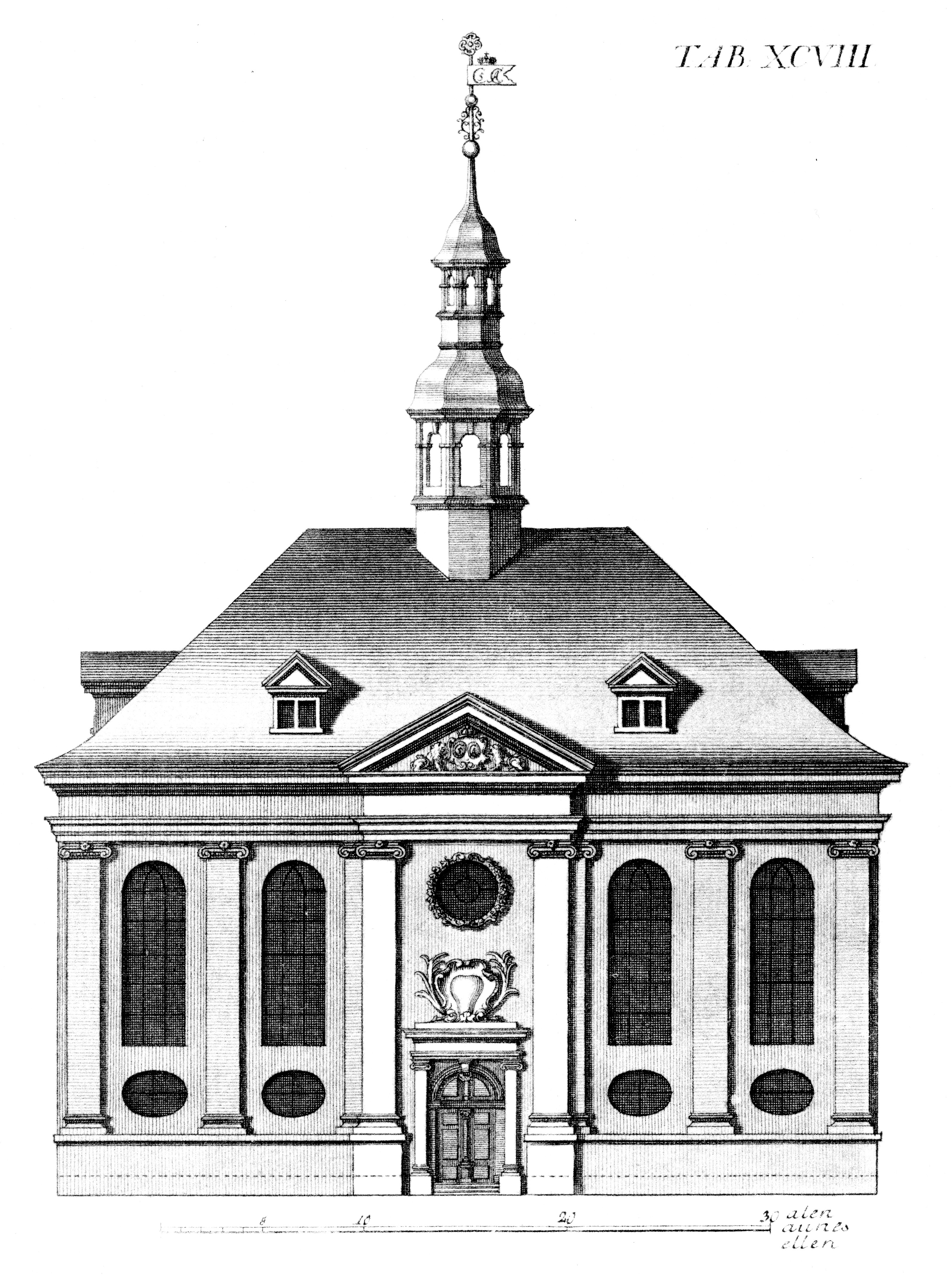 From Hafnia Hodierna by Laurids de Thurah, 1748. Drawings of buildings in Copenhagen. Tab.XCVIII. Reformerte Kirke